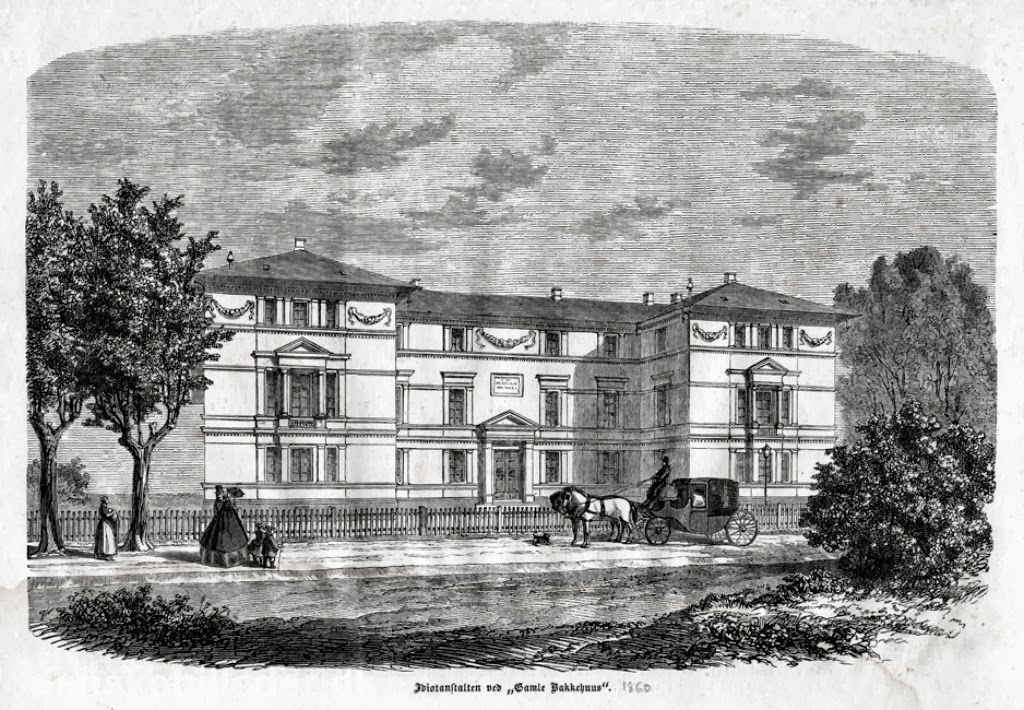 Frederiksberg Åndsvageanstalt on Tahbeks Allé in Frederiksberg, Copenhagen, Denmark